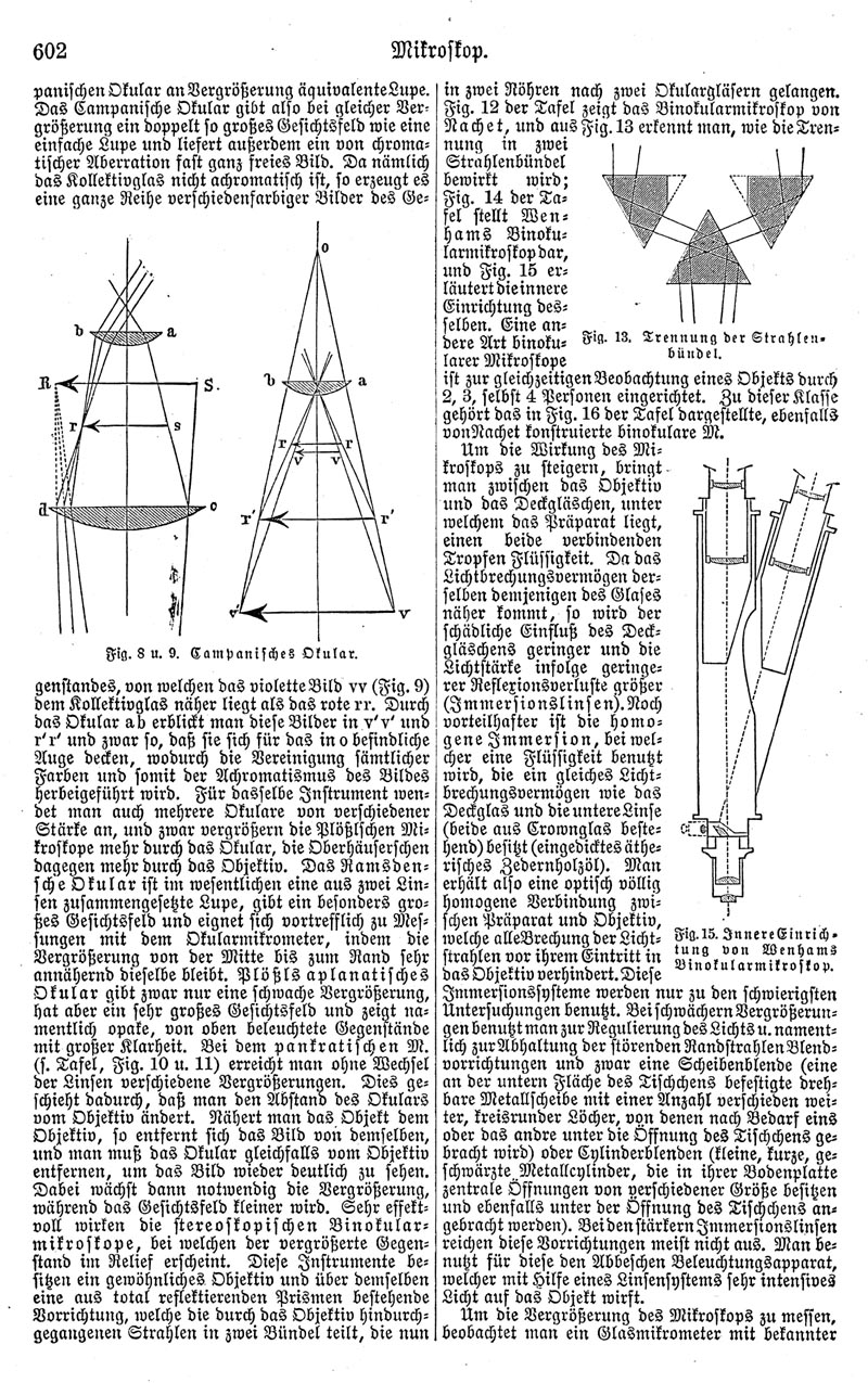 This is page 602 of 1028, in Volume 11 of the German illustrated encyclopedia Meyers Konversationslexikon, 4th edition (1885-1890), fraktur font.